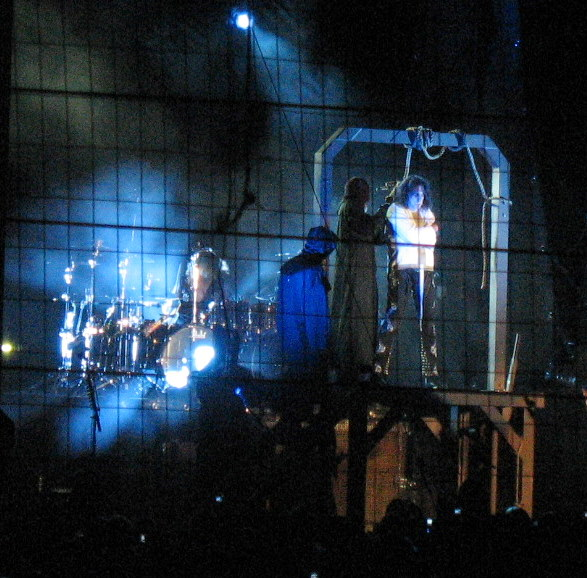 Photo from Alice Cooper's concert